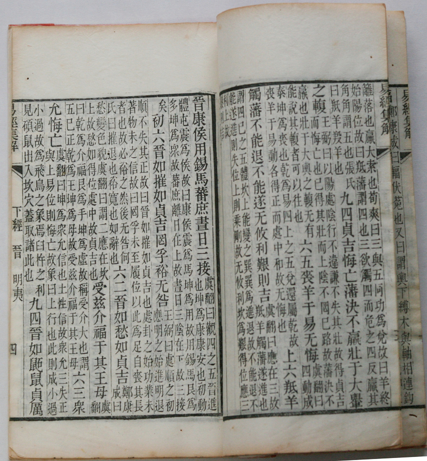 I_ching annotated by Sun_si_, woodblock printing on paper, bound by stitching, published in 1876, China